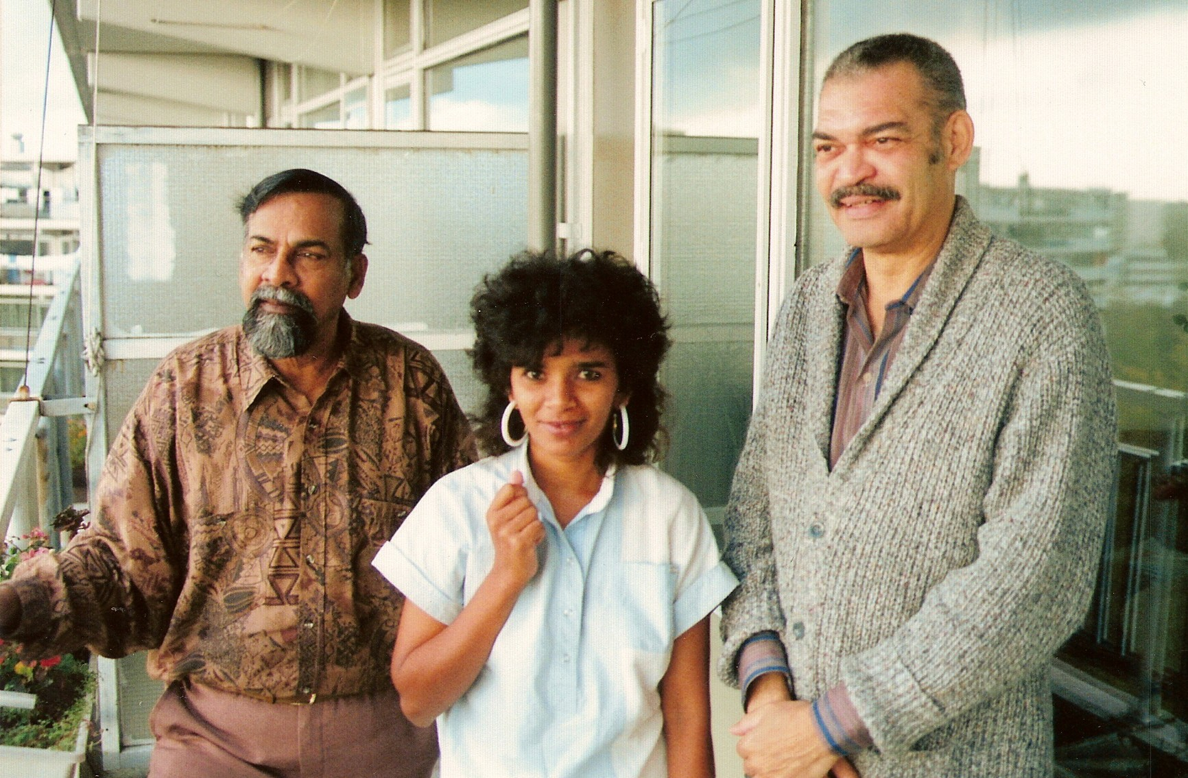 Shrinivasi, Candani and Rudy Bedacht, poets from Suriname; picture taken in Amsterdam